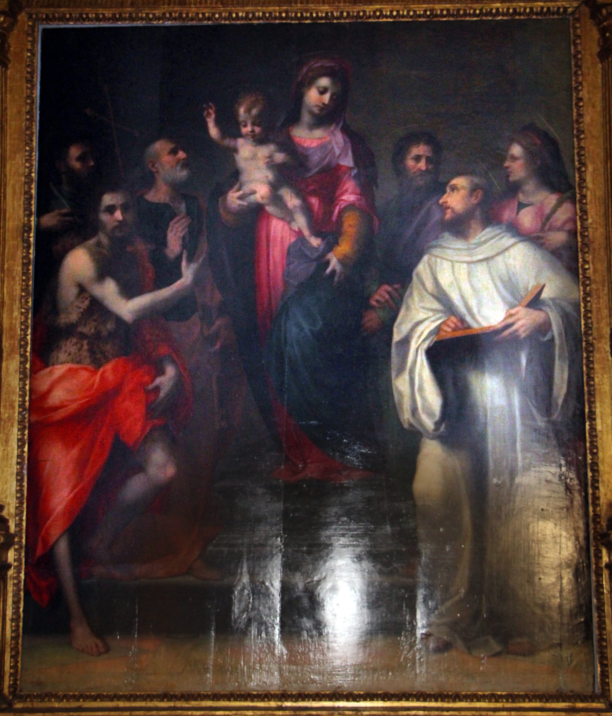 Santa Maria Maddalena de' Pazzi (Florence) - Interior